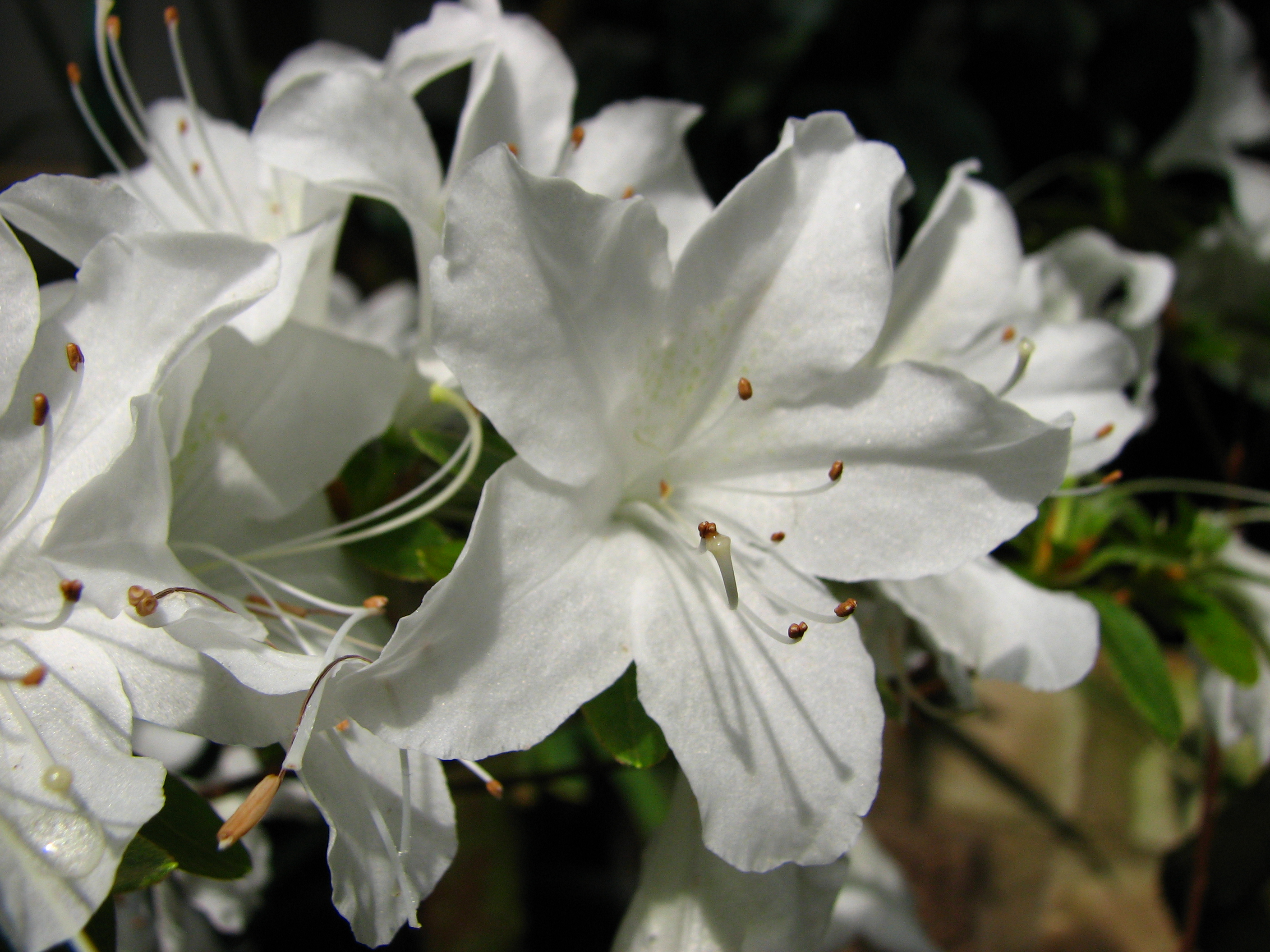 Rhododendron 'Palestrina'. From the collection of the Stock greenhouse of the Main Moscow Botanical Garden of Academy of Sciences.